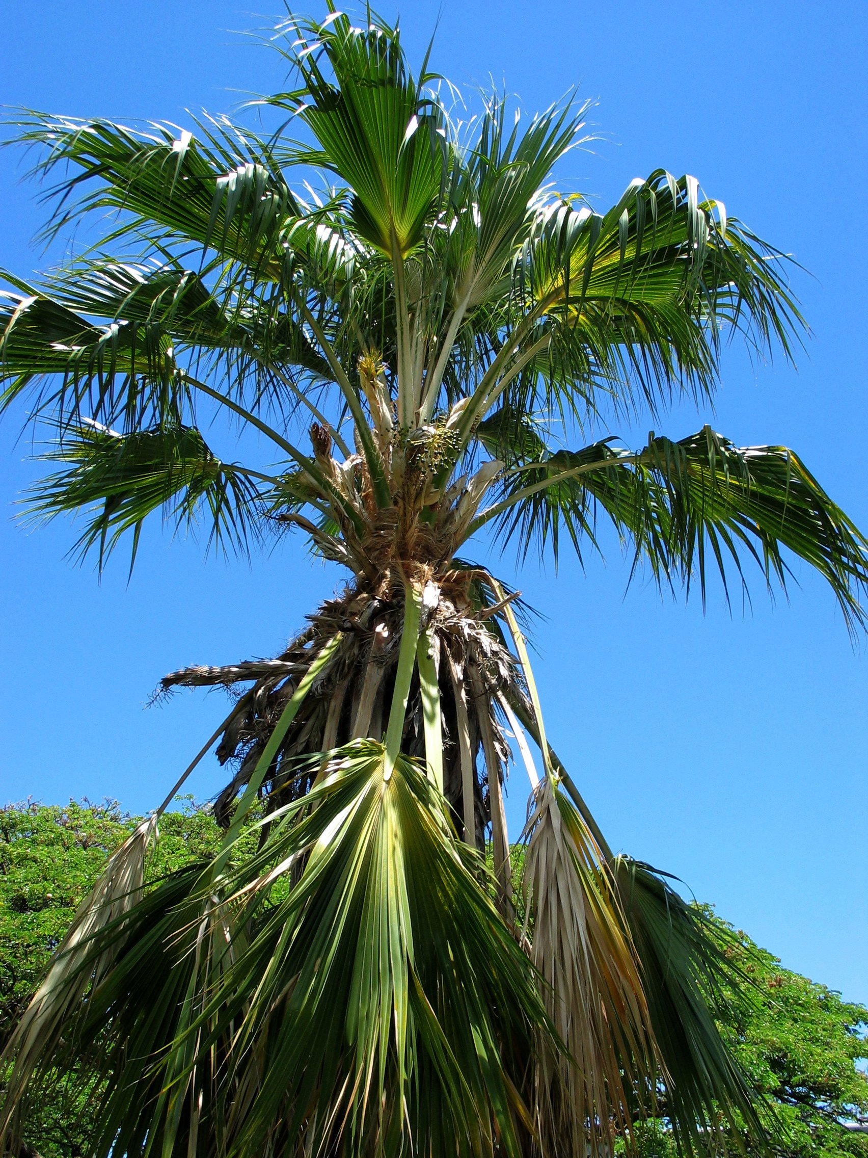 Loulu Arecaceae Endemic to the Hawaiian islands Endangered Oʻahu (Cultivated) NPH00005